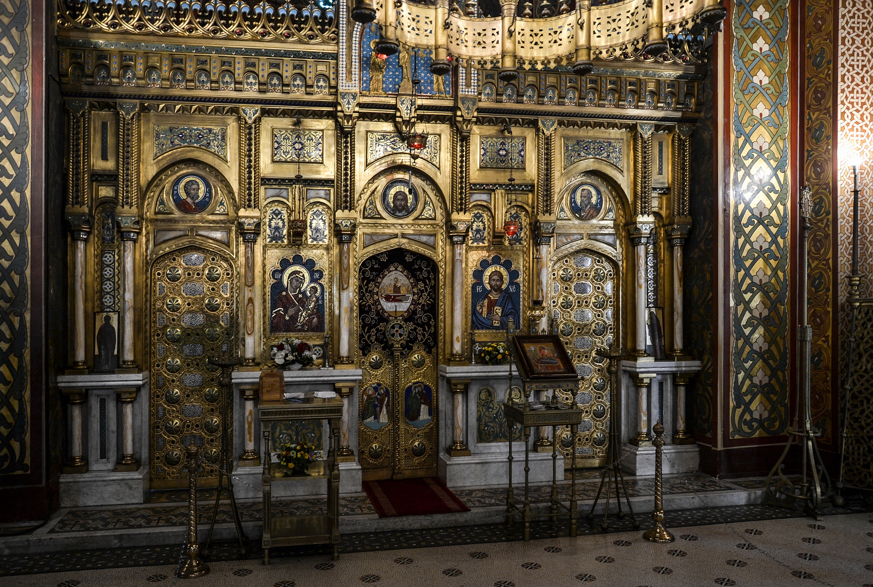 Church of the Dormition, Argeș monastery, Romania